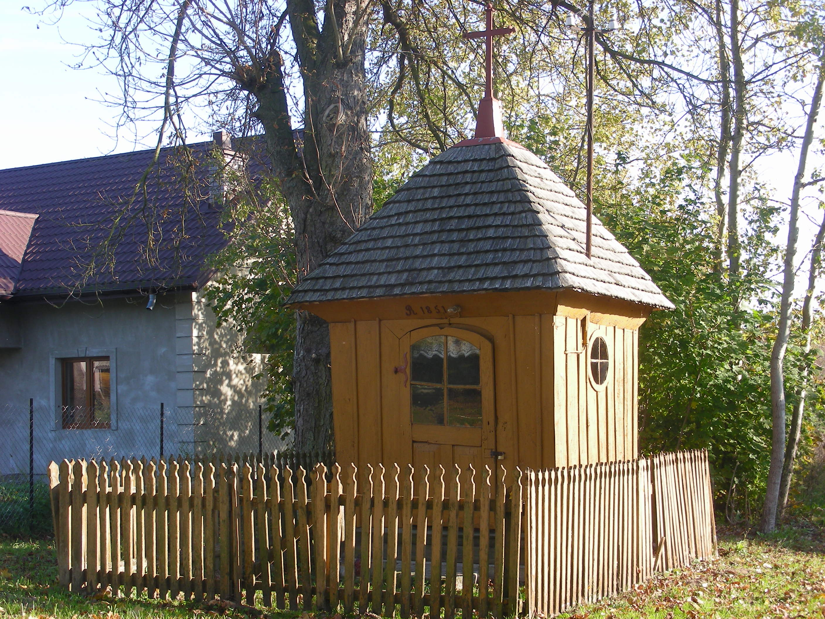 Ancient antique wayside small chapel 1851 in Wola Rafałowska, Poland